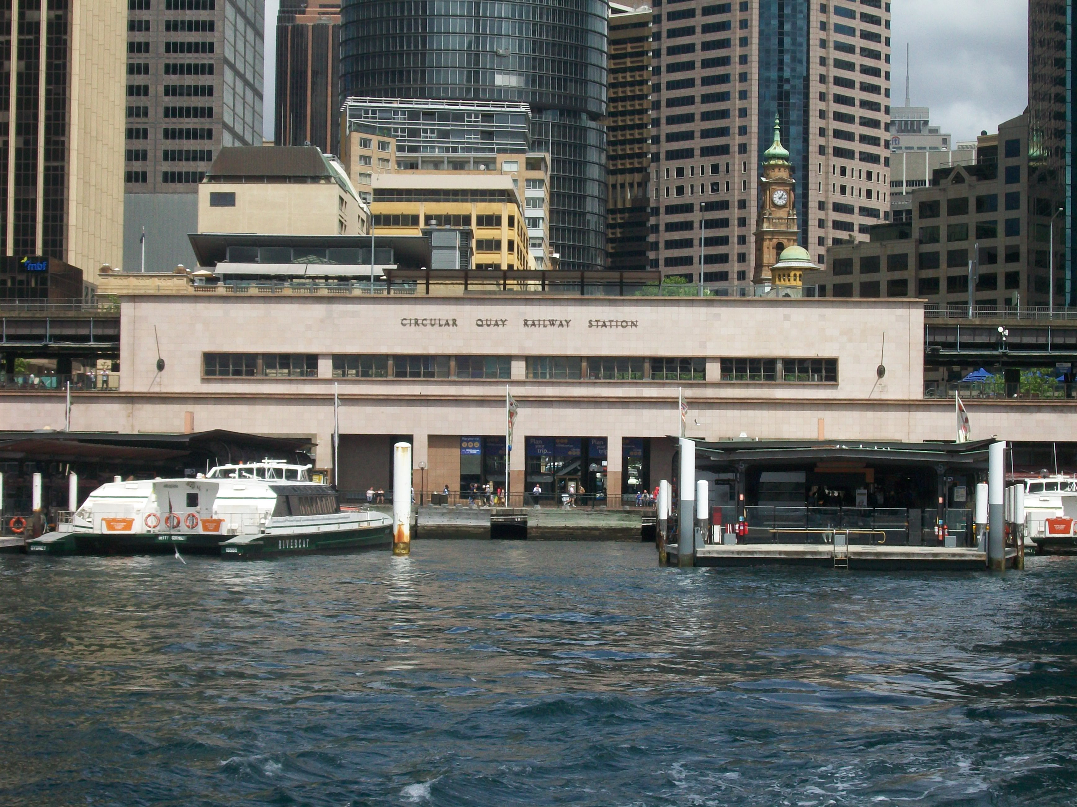 circular quay railway station exterior from water